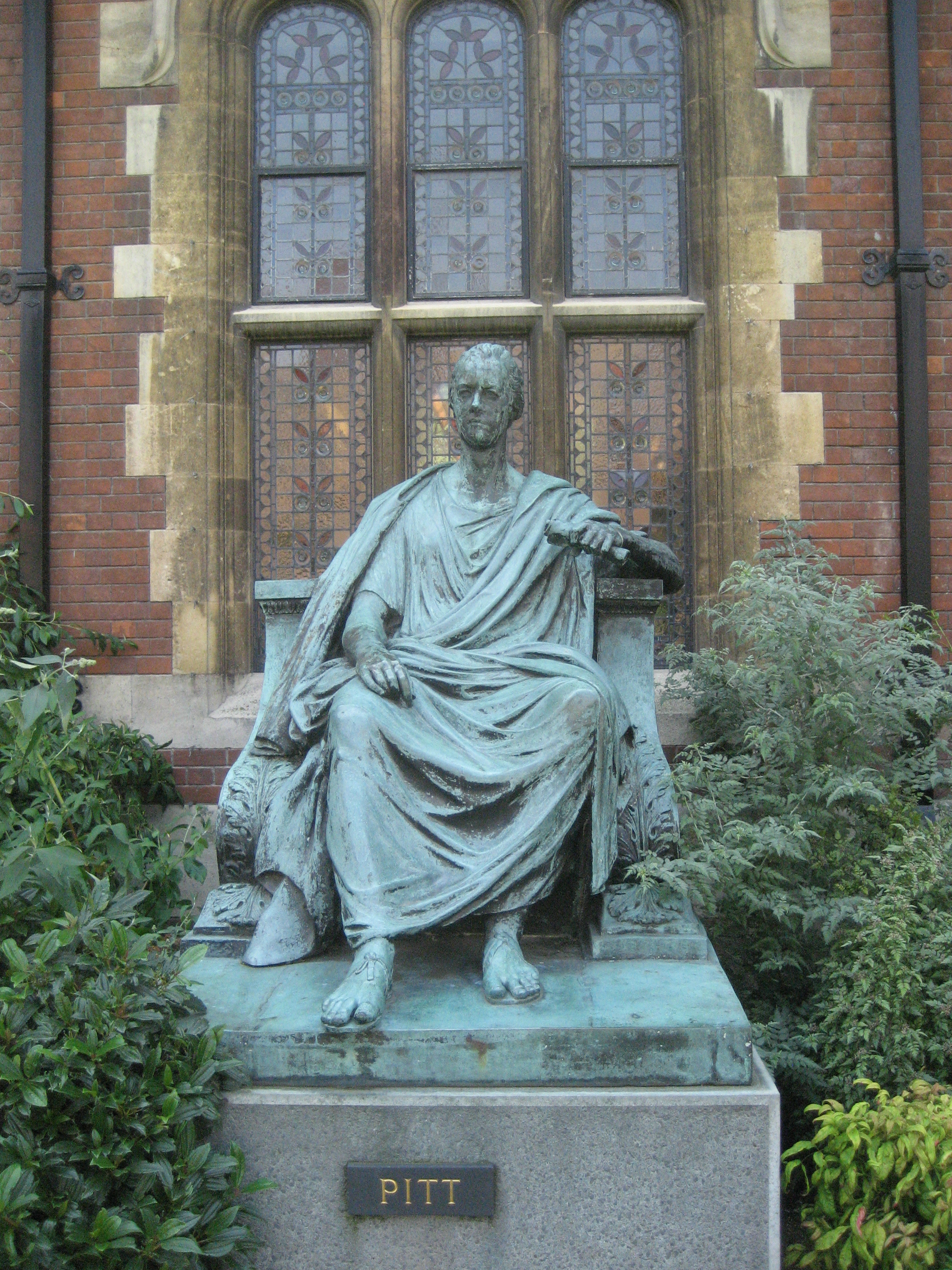 William Pitt, sculpture at Pembroke College, Cambridge, England (UK). Sculptor: Richard Westmacott, 1819